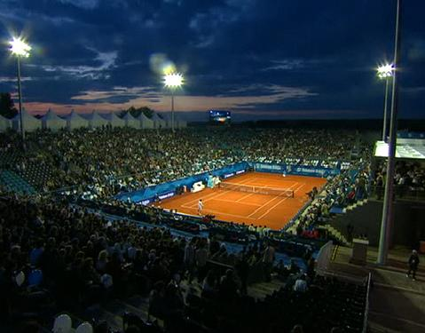 Night session on centre court at the Serbian Open in Belgrade during a second round match between Novak Djokovic and Janko Tipsarevic.